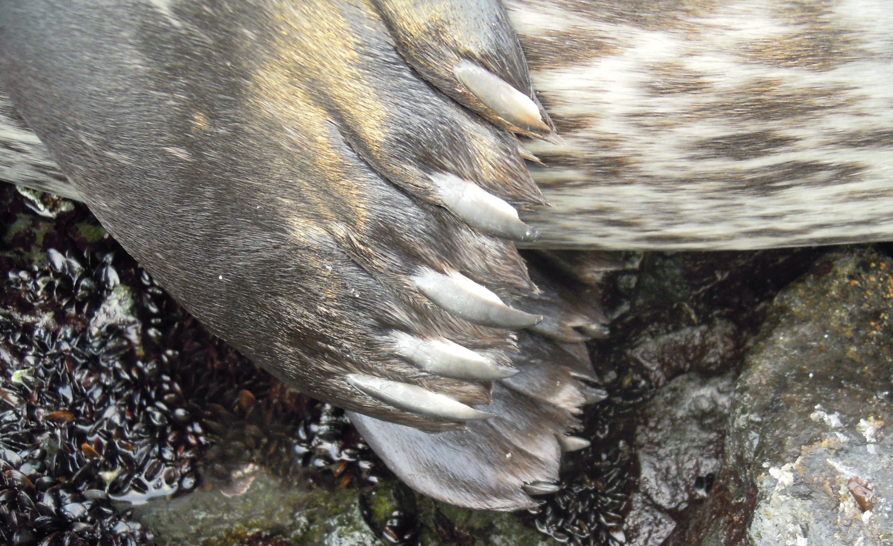 Harbour seal - flippers, Larvik